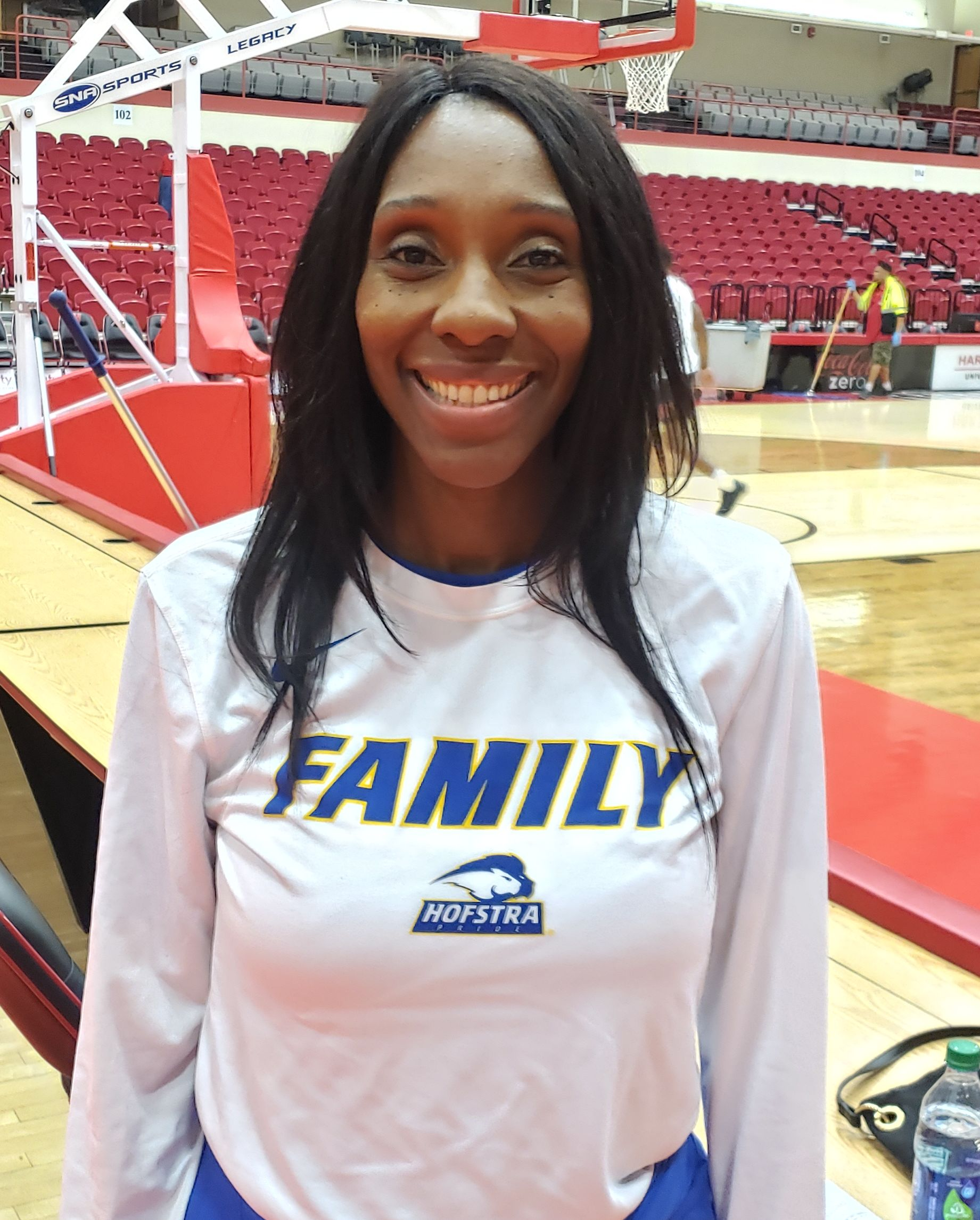 Danielle Santos Atkinson, head coach Hofstra women's Basketball, at Chase Arena, after winning her first ever game as a head coach over Hartford 43–41 on 6 November 2019